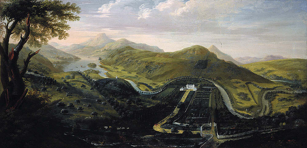 View of Taymouth Castle, Scotland, from the south. Painted by James Norie in 1733 and amended in 1739. Oil on canvas. 66 x 133 cm.